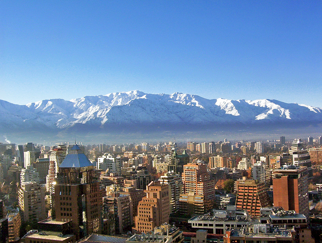 Santiago de Chile in winter